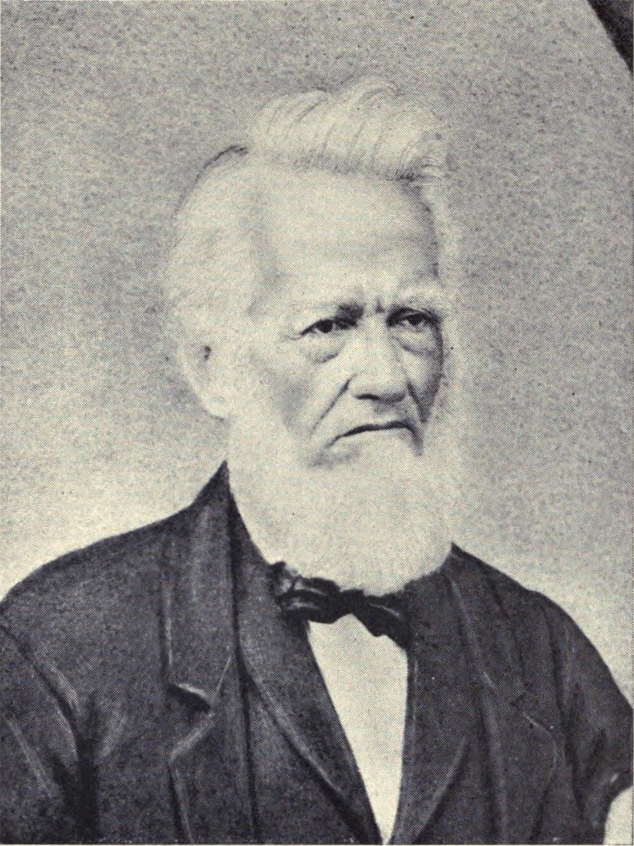 David Belden Lyman (1803–1868) was an early American missionary to Hawaii who opened a boarding school for Hawaiians. His wife Sarah Joiner Lyman (1805–1885) taught at the boarding school and kept an important journal. They had several notable descendants.